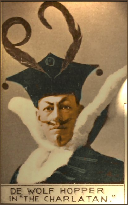 De Wolf Hopper, American actor